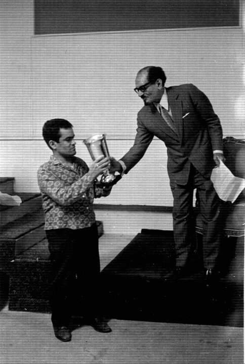 Giving an award at his sons (Essam) furniture factory in Beirut